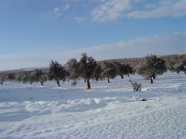 tal alnakah